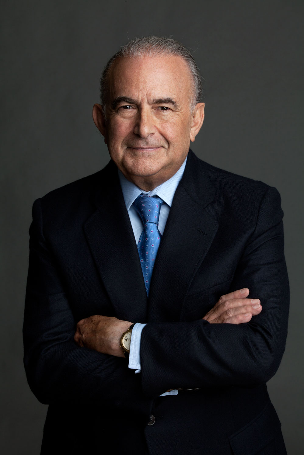 Portrait of Gustavo Cisneros